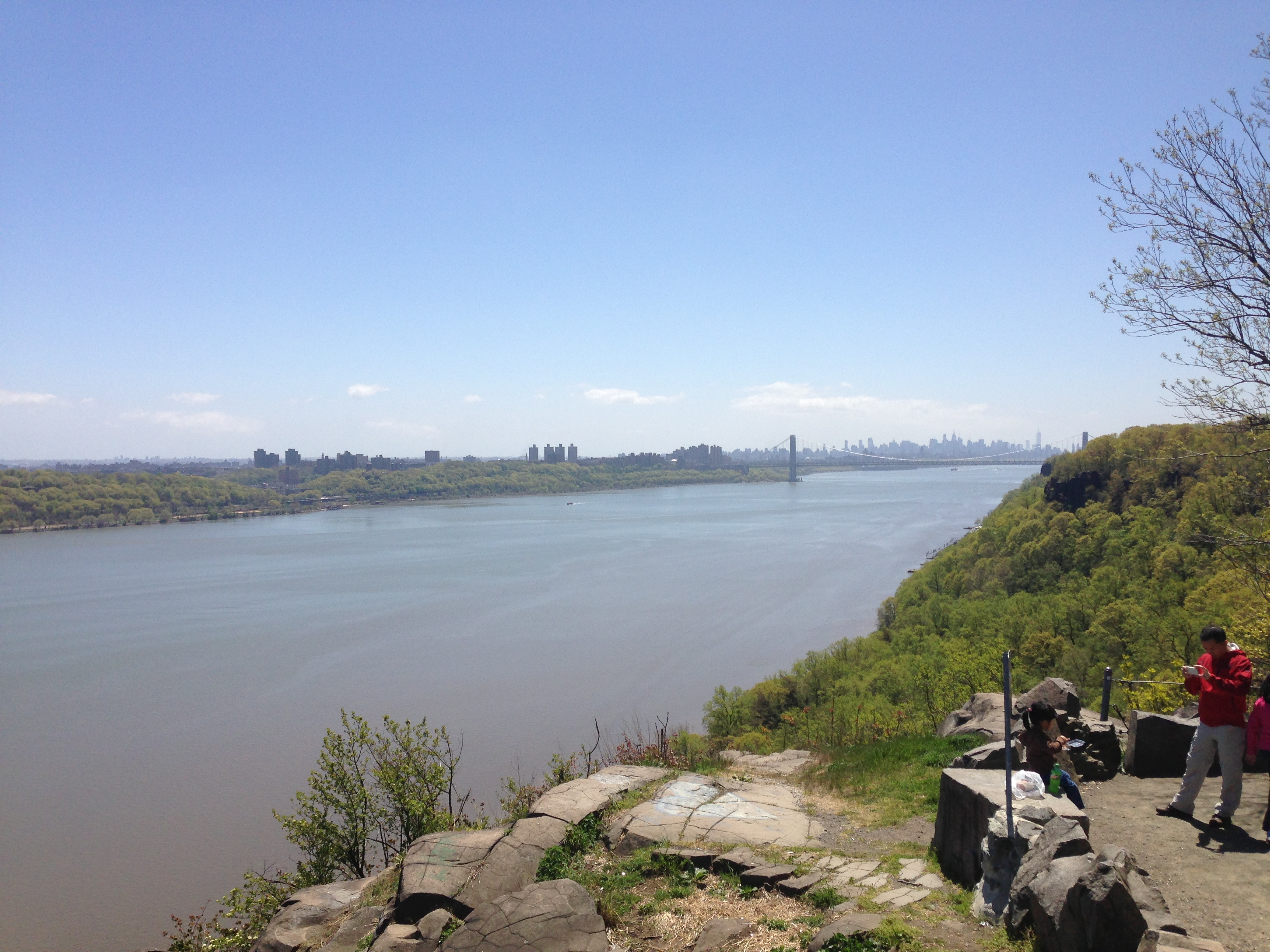 View of the George Washington Bridge and Manhattan from the Rockefeller Overlook on the Palisades Interstate Parkway in Englewood Cliffs, New Jersey